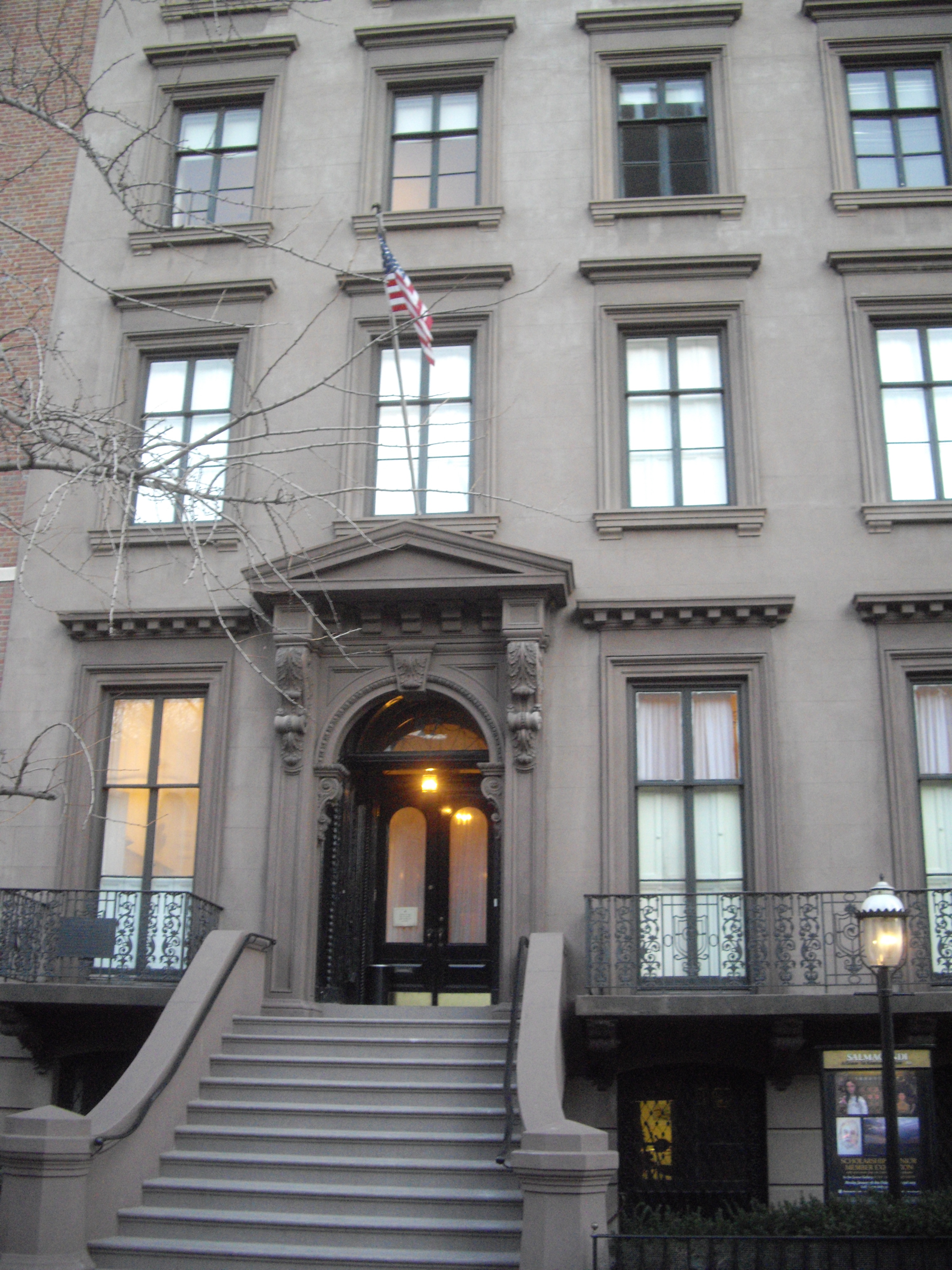 Salmagundi Club, 47 5th Avenue, Manhattan